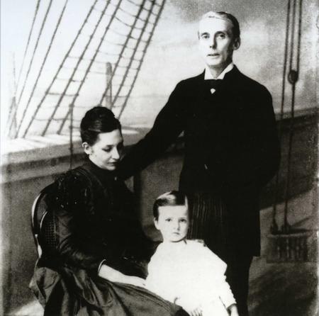 John Pope Hennessy's family香港總督軒尼斯爵士及其全家